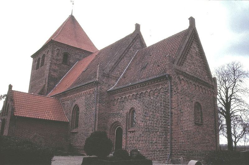 Tågerup Kirke (church)